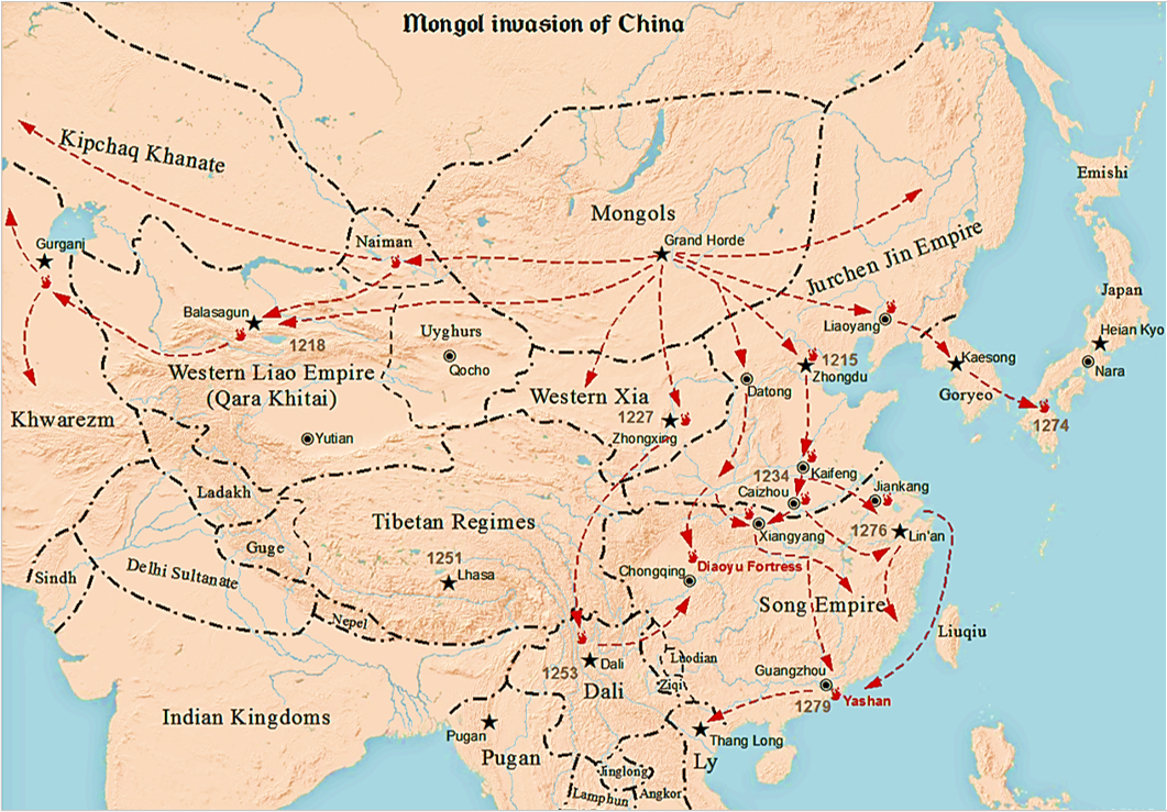 Mongol Empire's conquest of Chinese regimes including Western Liao, Jurchen Jin, Song, Western Xia and Dali kingdoms.